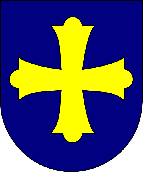 Coat of arms (shield only) of Hryhorij Tarkovits (Gregor Tarkovič, Григорій Таркович), bishop (eparch) of Prešov, Slovakia (1818 - 1843).